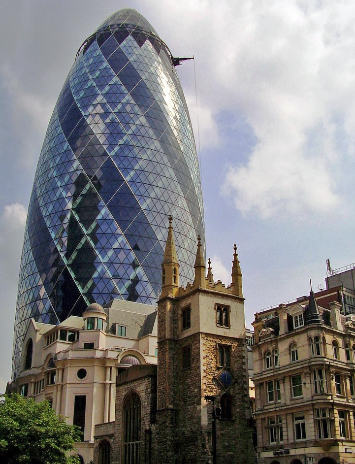 The Gherkin and St Helen's Bishopsgate, London Photo taken, by User:Barney Jenkins, 2007